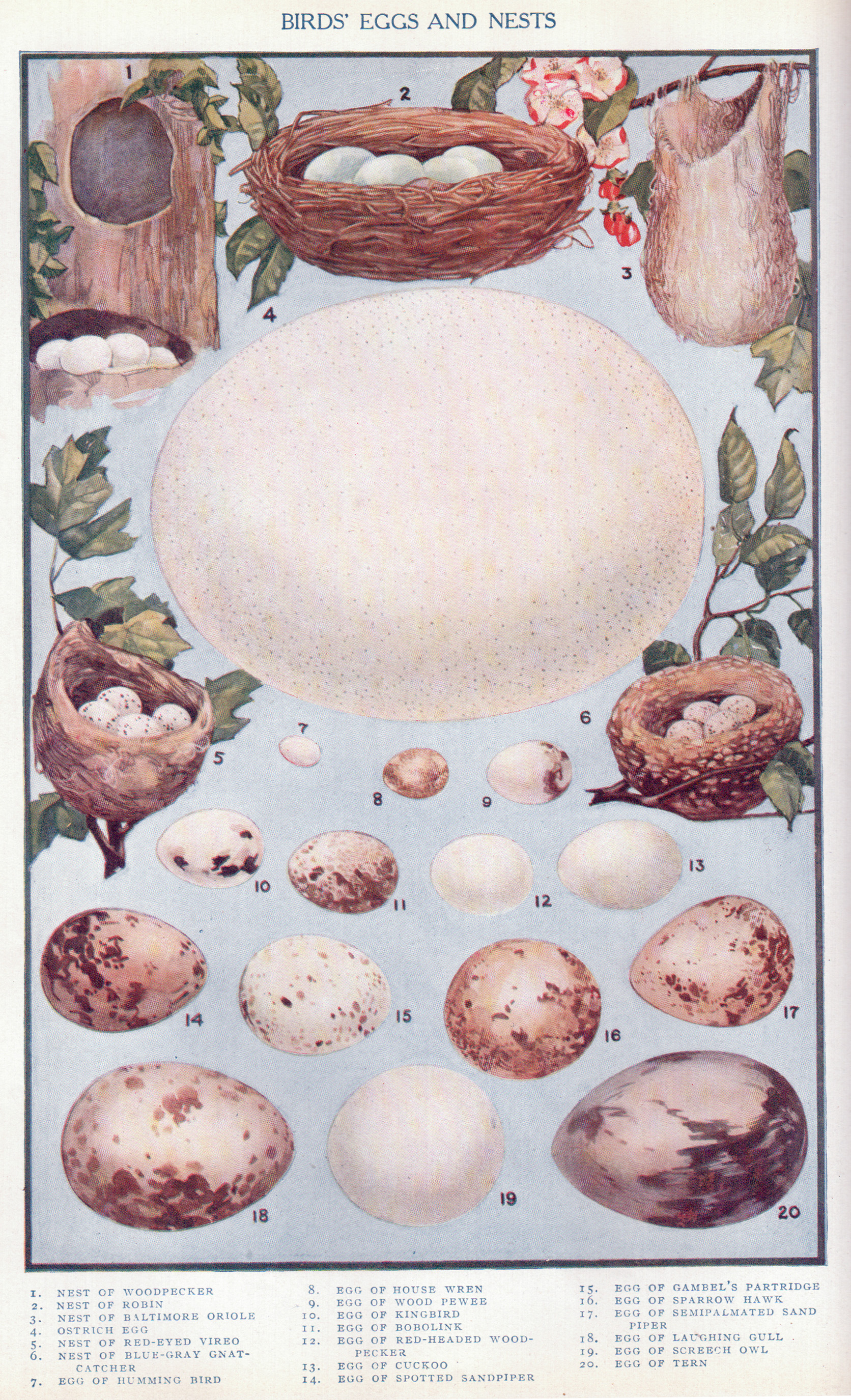 The above illustration is from "The Home and School Reference Work", Volume III by The Home and School Education Society, H. M. Dixon, President and Managing Editor. The book was published in 1917 by The Home and School Education Society. This copyright free image is between pages 910 and 911 Flickr data on 2011-08-18: Tags: 1917, book, The Home and School Reference Work, copyright free, creative commons, free, freebie, illustrated License: CC BY 2.0 User: perpetualplum Sue Clark